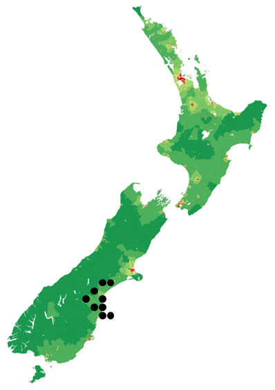 This is a map of Port FM frequencies and New Zealand population density.